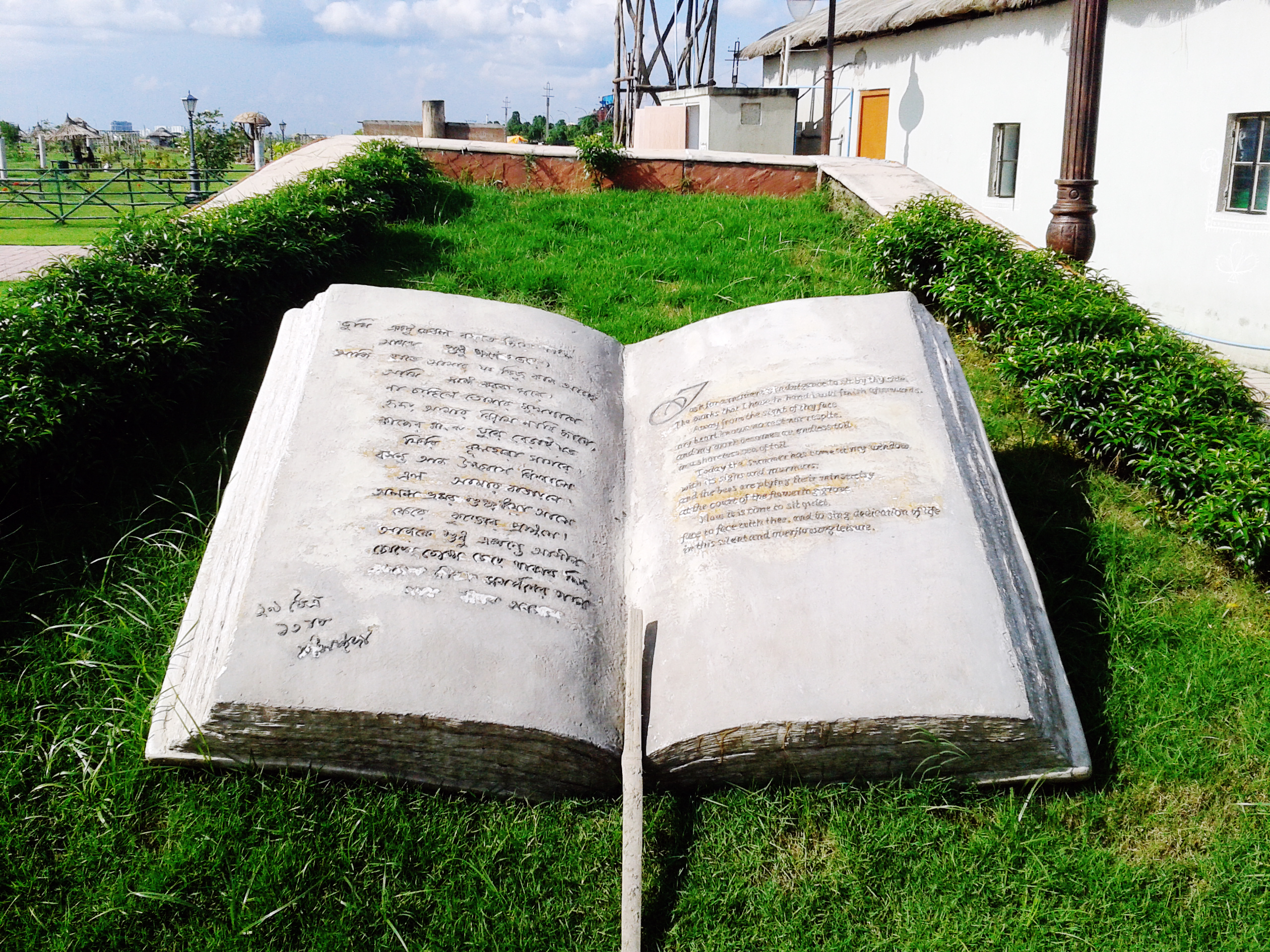 plaster model of a book showing one of Tagores poems in Bengali at Rabi Aranya in the park